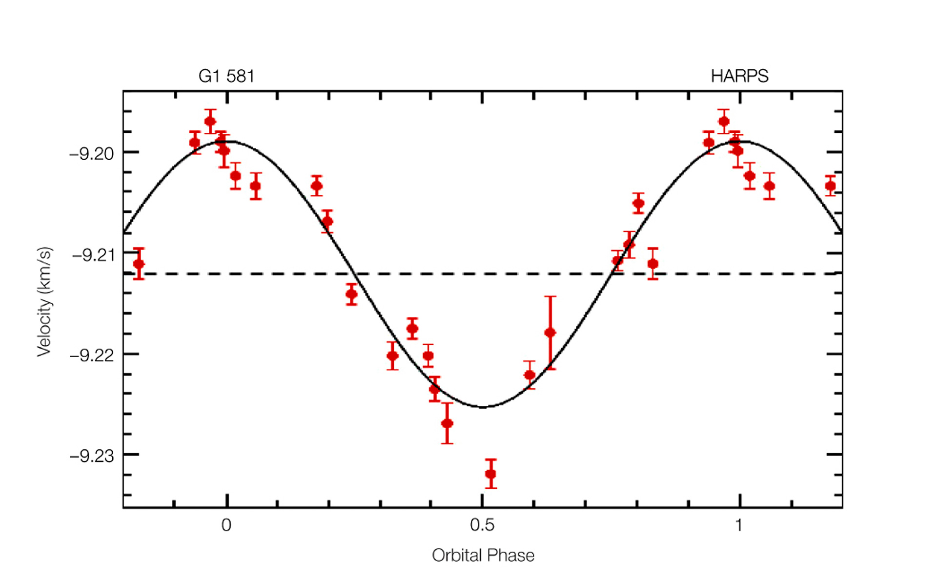 Radial velocities of the red dwarf Gl 581 as a function of the orbital phase. The amplitude of the detected variation is 13.2 m/s and the curve is consistent with a circular orbit. The orbital period is 5.366 days.